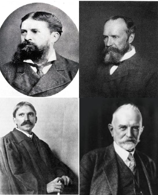 Pragmatists,Peirce,James,Dewey,Mead